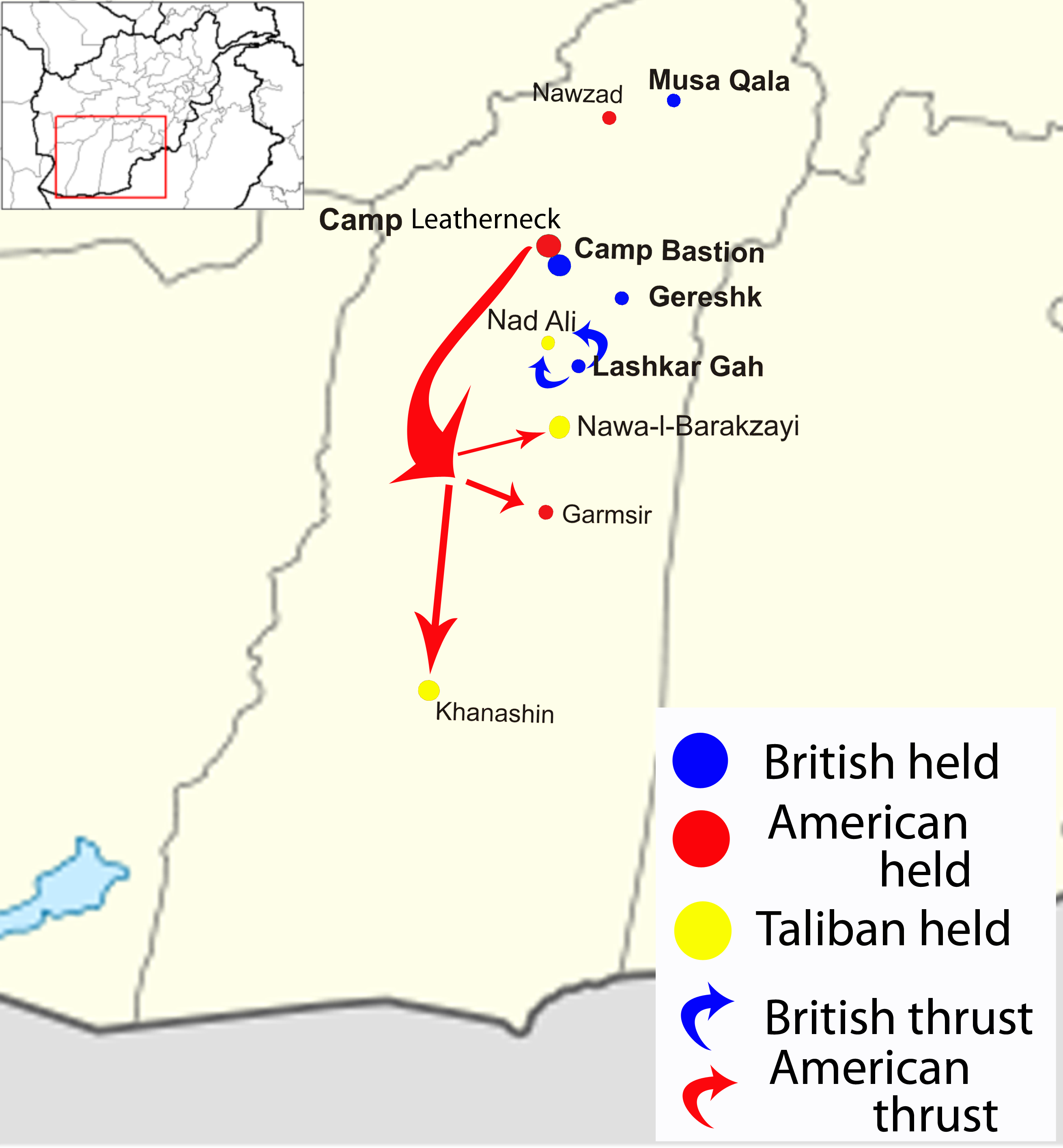 Operation Strike of the Sword and Operation Panther's Claw, derivitave of File:Afghanistan location map.svg, info based on File:AFGH_HELM_SOTS-01.jpg, map here